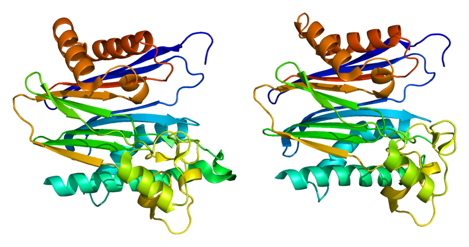 Structure of the PPM1B protein. Based on PyMOL rendering of PDB 2p8e.